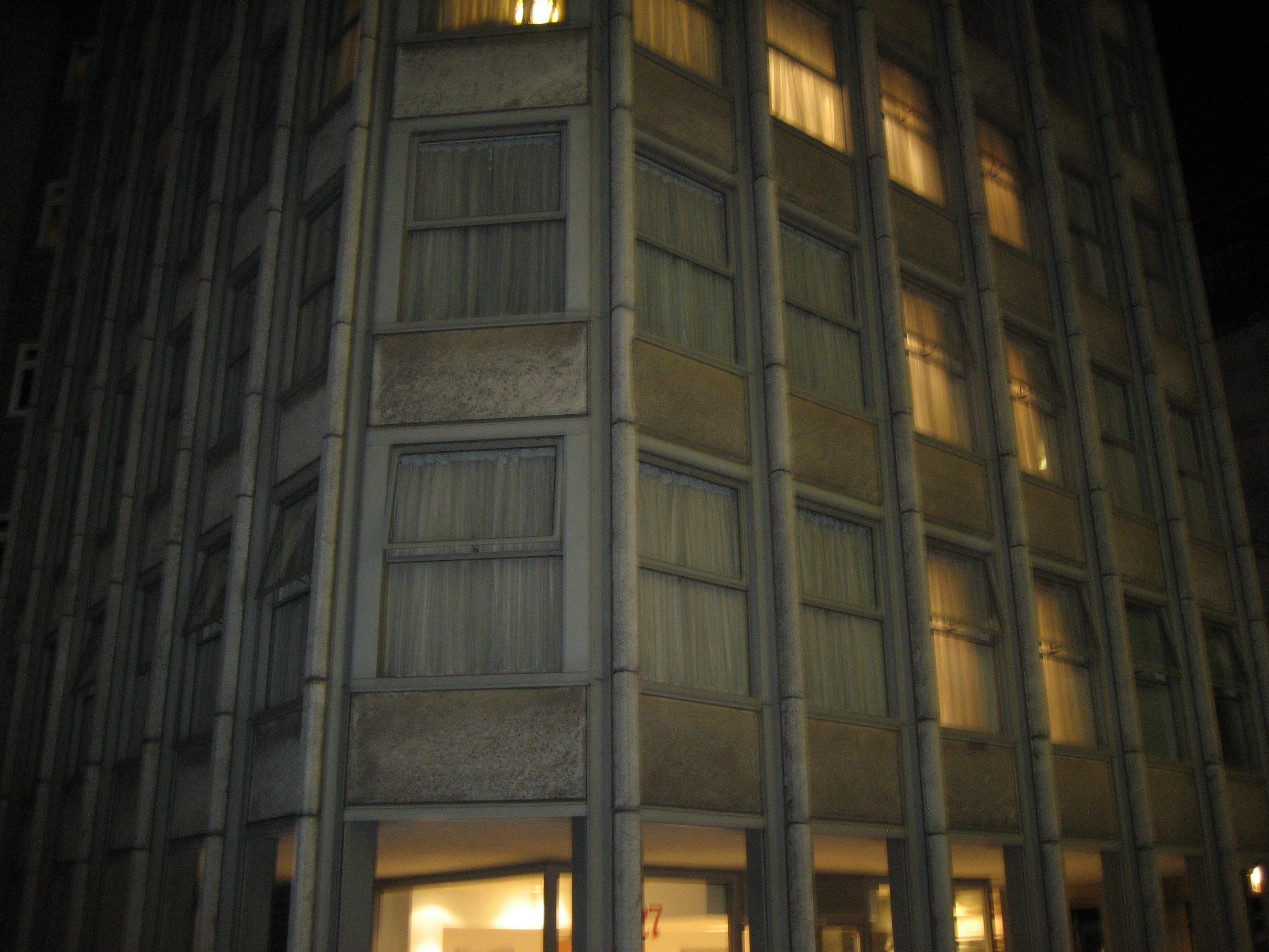 Economist Buildings in London